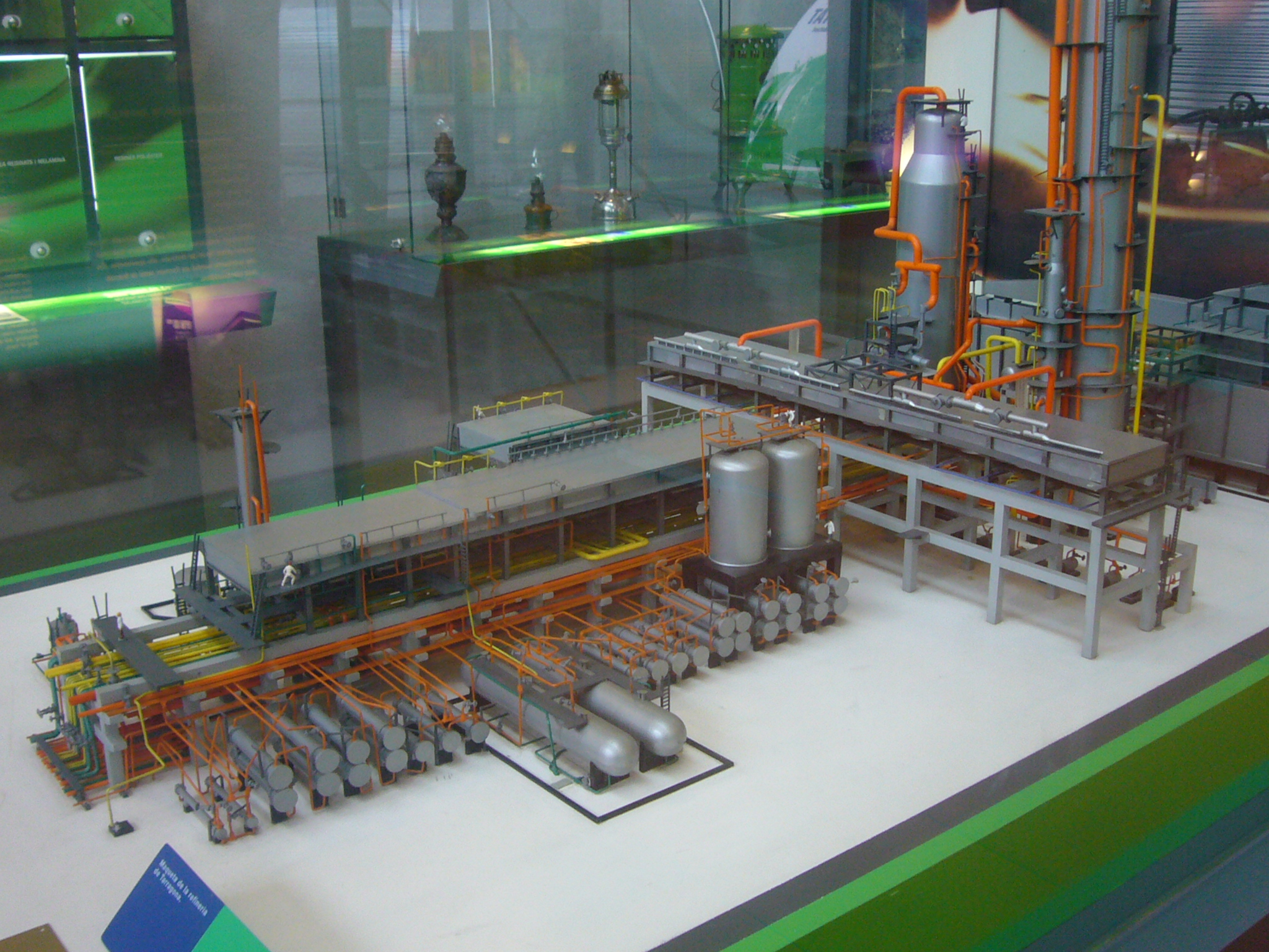 model of the Tarragona refinery - mnactec